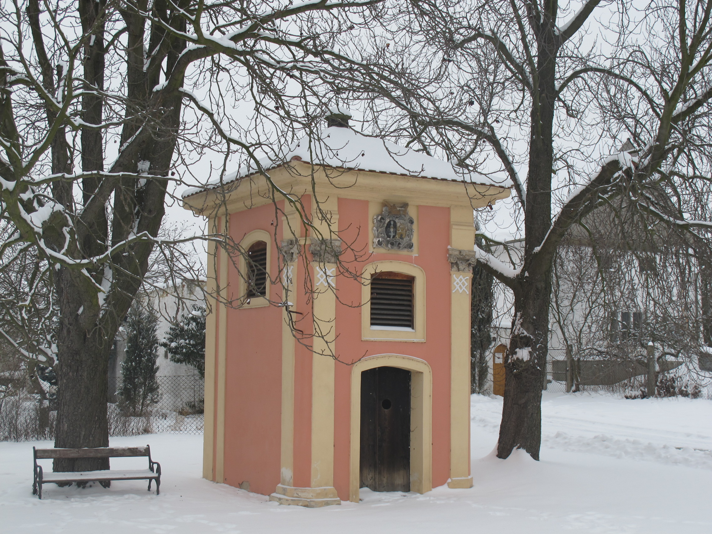 Chapel of Holy Virgin in Chudeřín (Louny District)